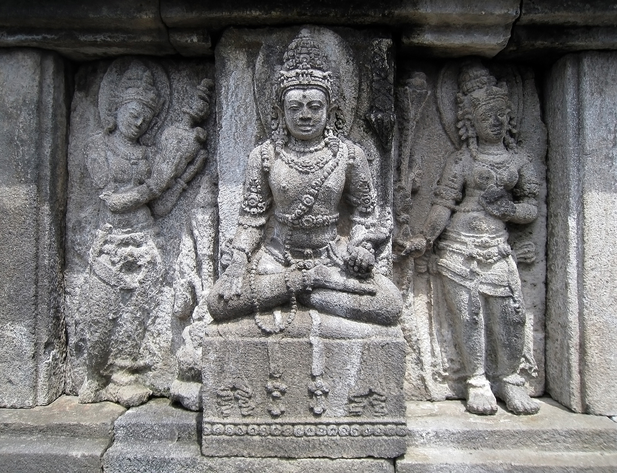 A male Hindu deity flanked on either sides by two female deities. These figures is probably devata and apsaras, the celestial maiden. The relief panel on the wall of Vishnu temple, Prambanan, Java, Indonesia.